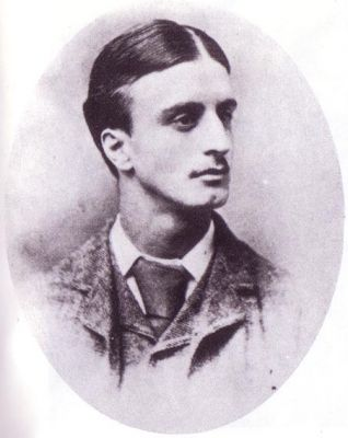 Montague John Druitt (1857–1888): barrister, cricketer, schoolmaster and suspect in the Jack the Ripper murders.